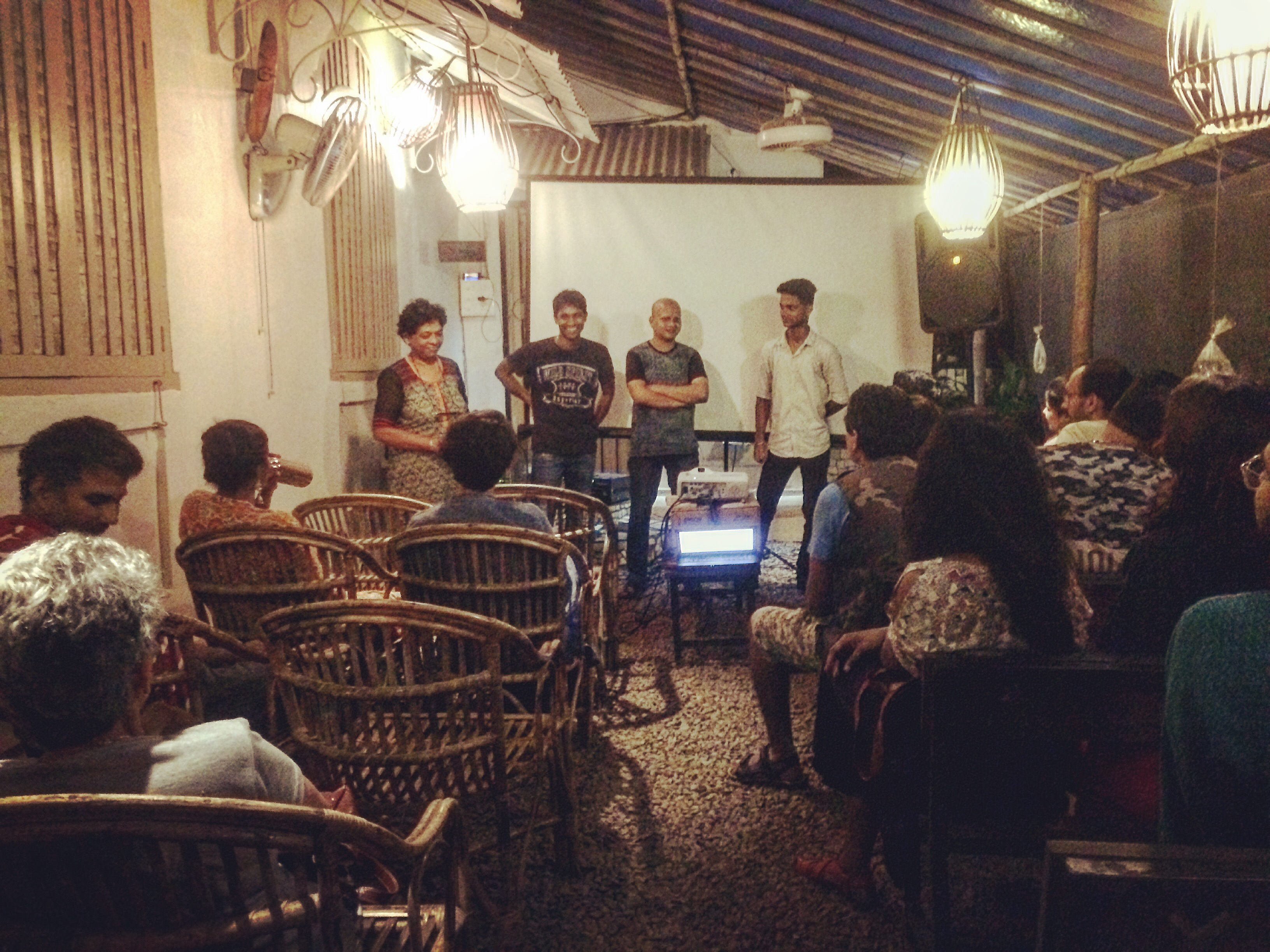 Cop: Screening and interaction with film maker | Juze at 6 Assagao by thus.